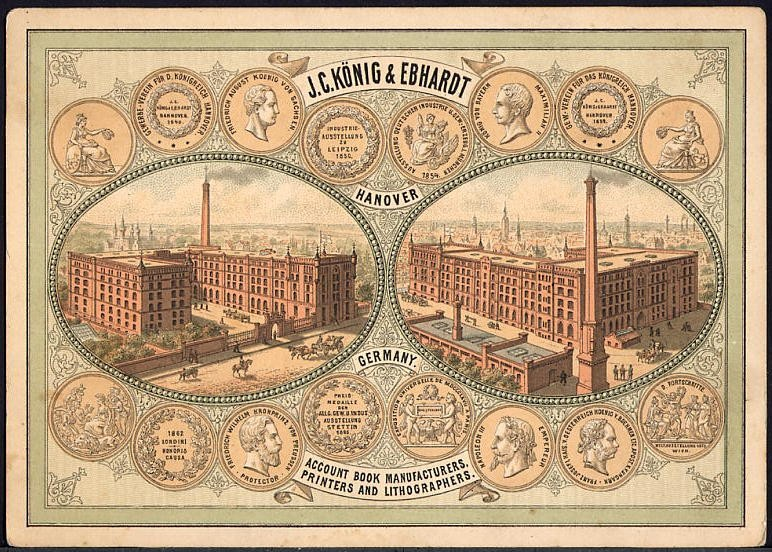 Trade card J. C. KONIG & EBHARDT Hanover Germany, about 1880. English written side with the front and backside of the first 1874-76 new built industriel buildings at Schlosswender Strasse. In this views there is still nothing to see of the later here alongside guided horse trams. In the backside you see the Welfenschloss respectively the skyline of the old inner city of Hanover. From the numerous shown medals you see in the upper left corner the eldest one from the Trade Association of the Kingdom of Hanover from the year 1849 (unfortunately in this resolution only unclearely recognizable). Already about 1880 the enterprise advertised its 3 business divisions account book manufactors, printers and lithographers and recommended itself internationally with this multicolored trade card for the printing of company shares, other bonds and banknotes. In the USA postcards and chromolithographies of Raphael Tuck of Sons are well known which are printed here in Hanover.